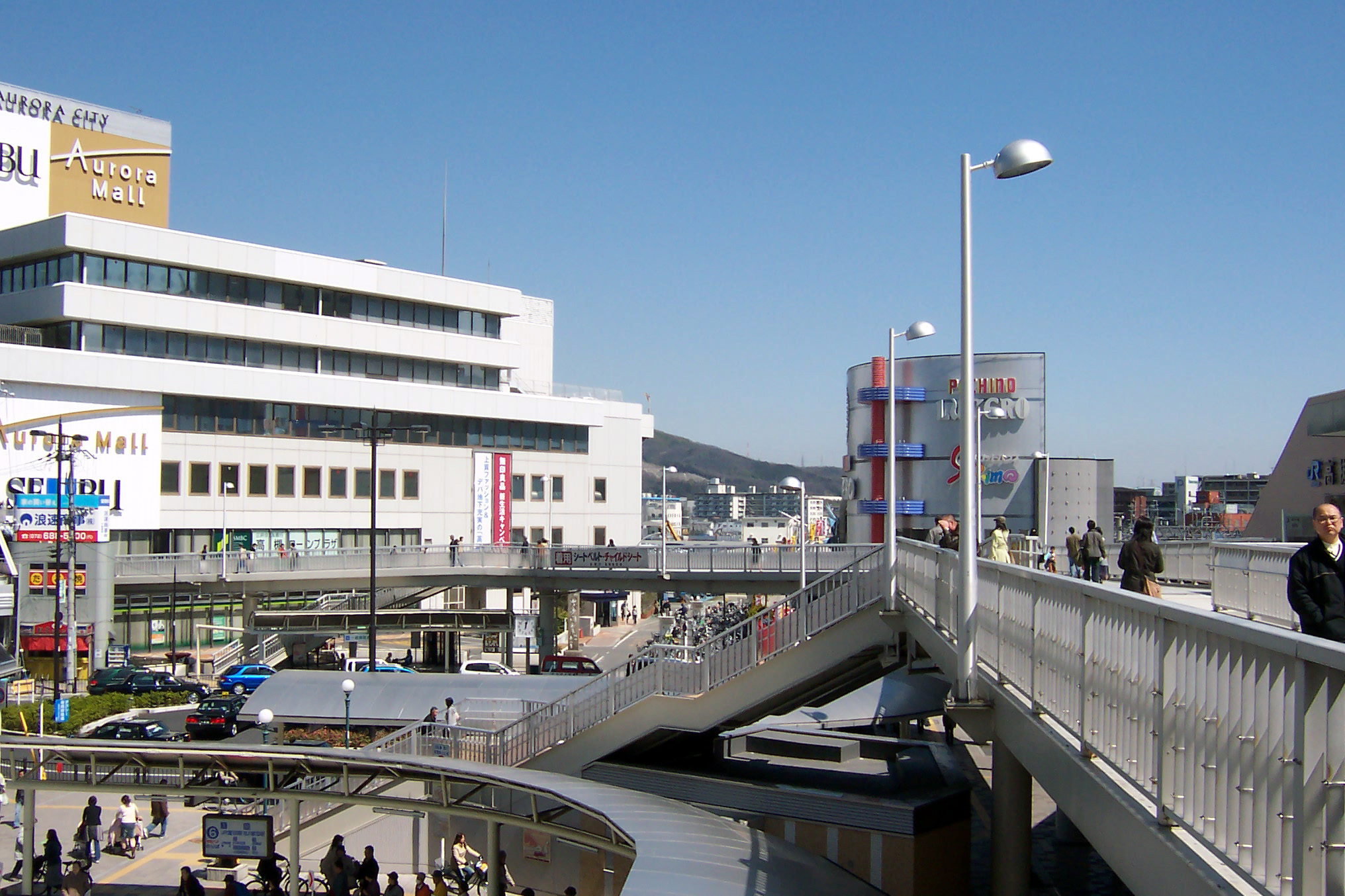 North side of Takatsuki Station, Takatsuki, Osaka.